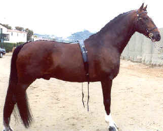 The photo of the Hackney Horse stallion, CANADANCE, was taken by and is owned by Panache Hackney Horse Farm, Cathlamet WA, as is CANADANCE.